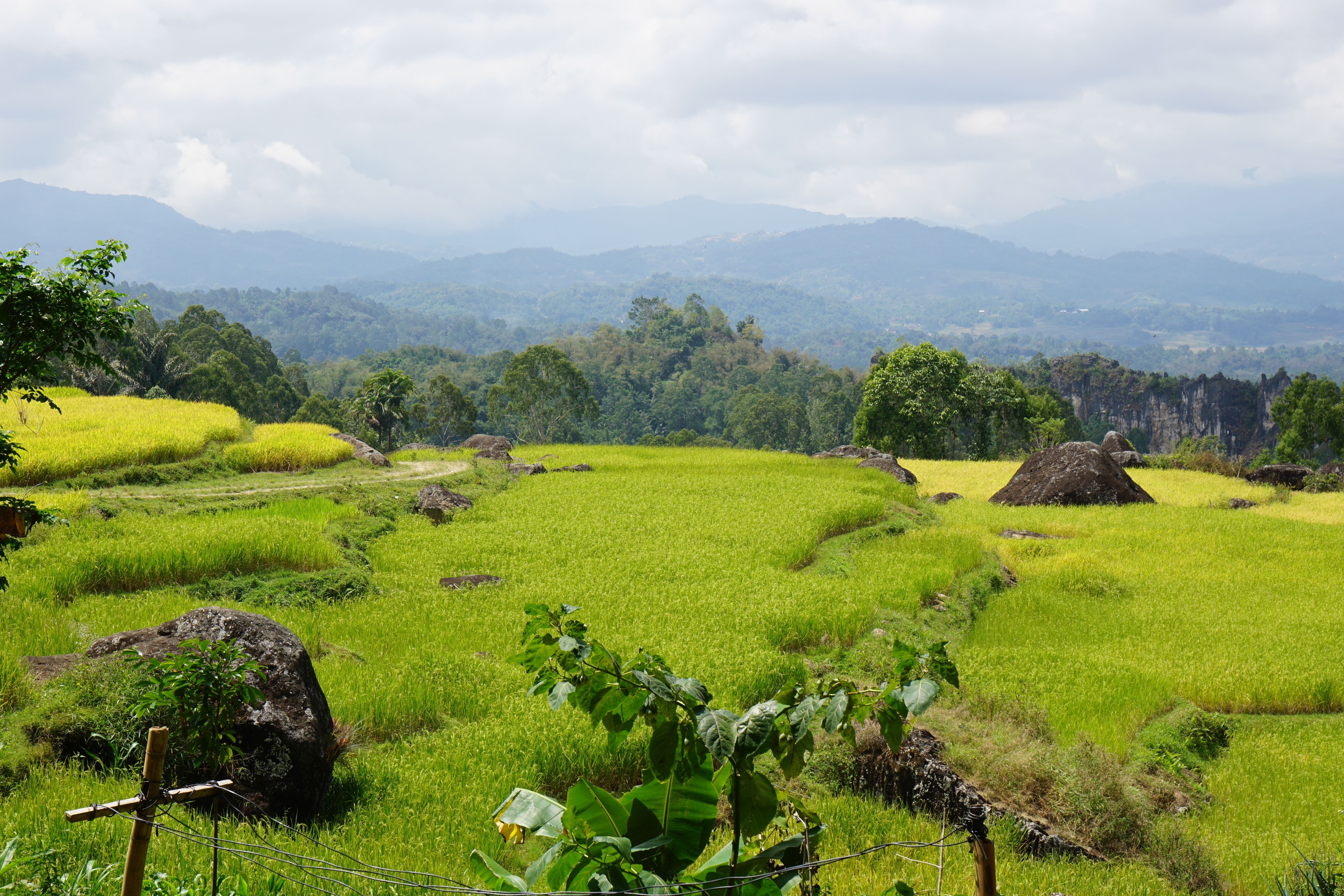 Field with volcanic rocks in South Sulawesi (Indonesia)